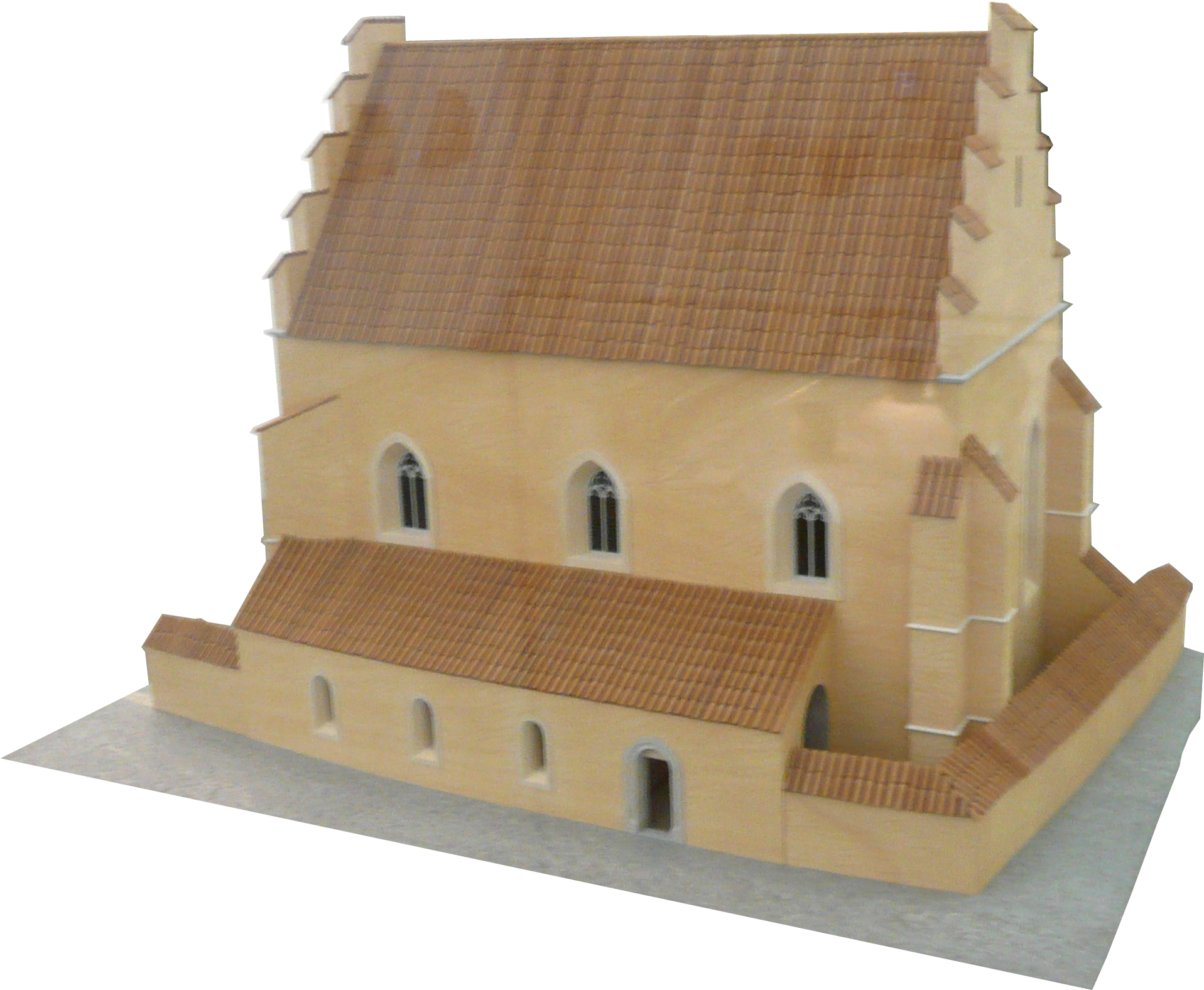 Model of the medieval synagogue at Judenplatz. around 1400. Model made out of various kinds of wood, scale 1:25. Design: Heidrun Helgerth, Franz Hnizdo. Realisation Atelier Franz Hnizdo.